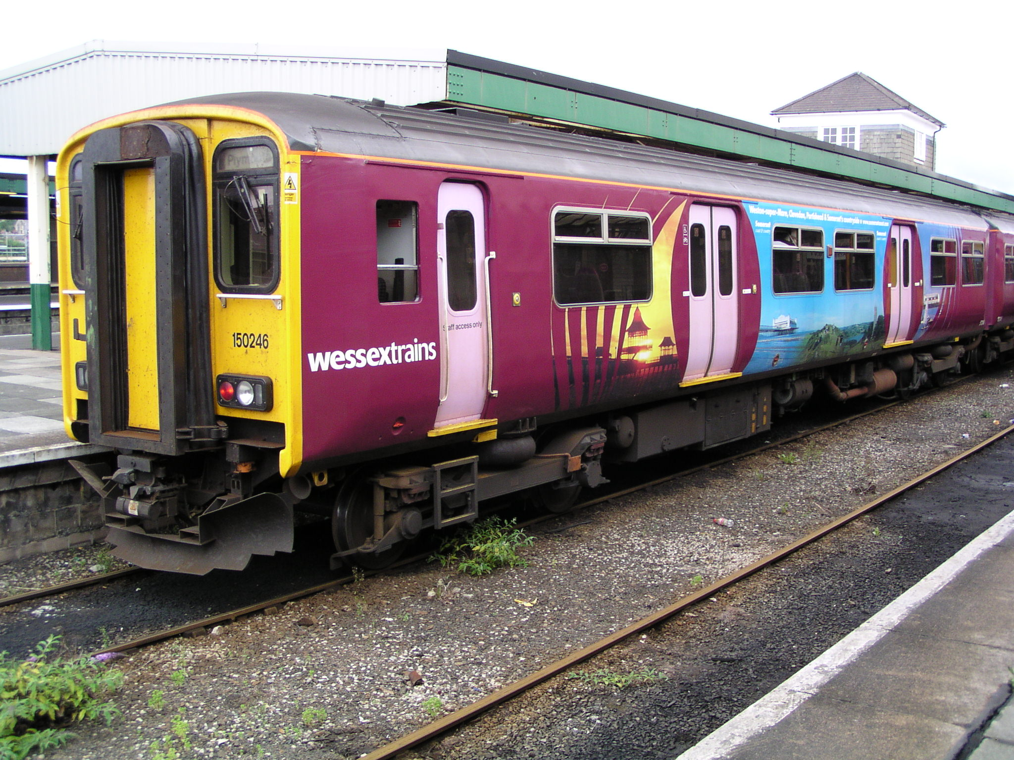 BR Class 150/2 no. 150246 at Plymouth on 29th August 2003. This unit carries Wessex Trains maroon regional-advertising livery.